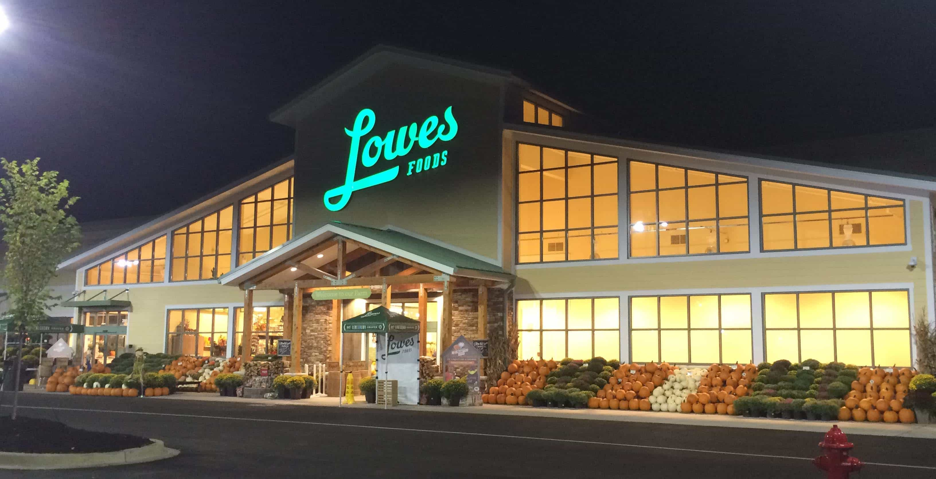 updated store photo